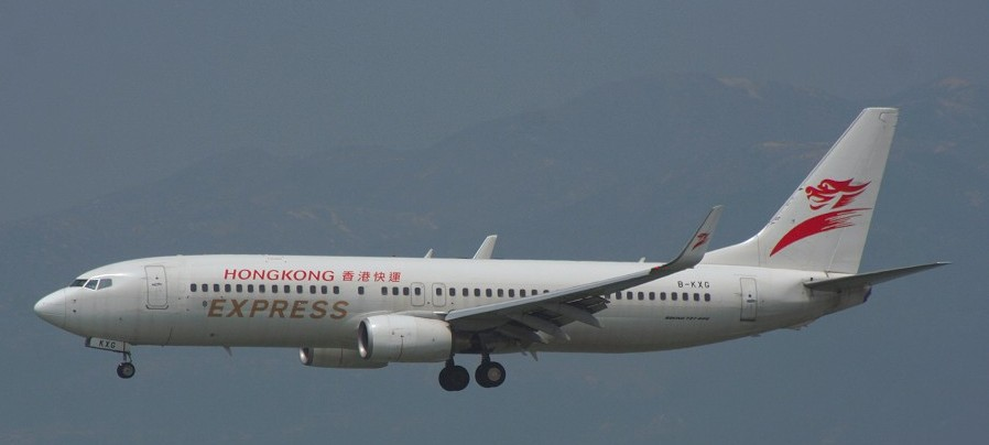 Boeing 737-808 "B-KXG" n° 34968 / 2265 from Hong Kong Express